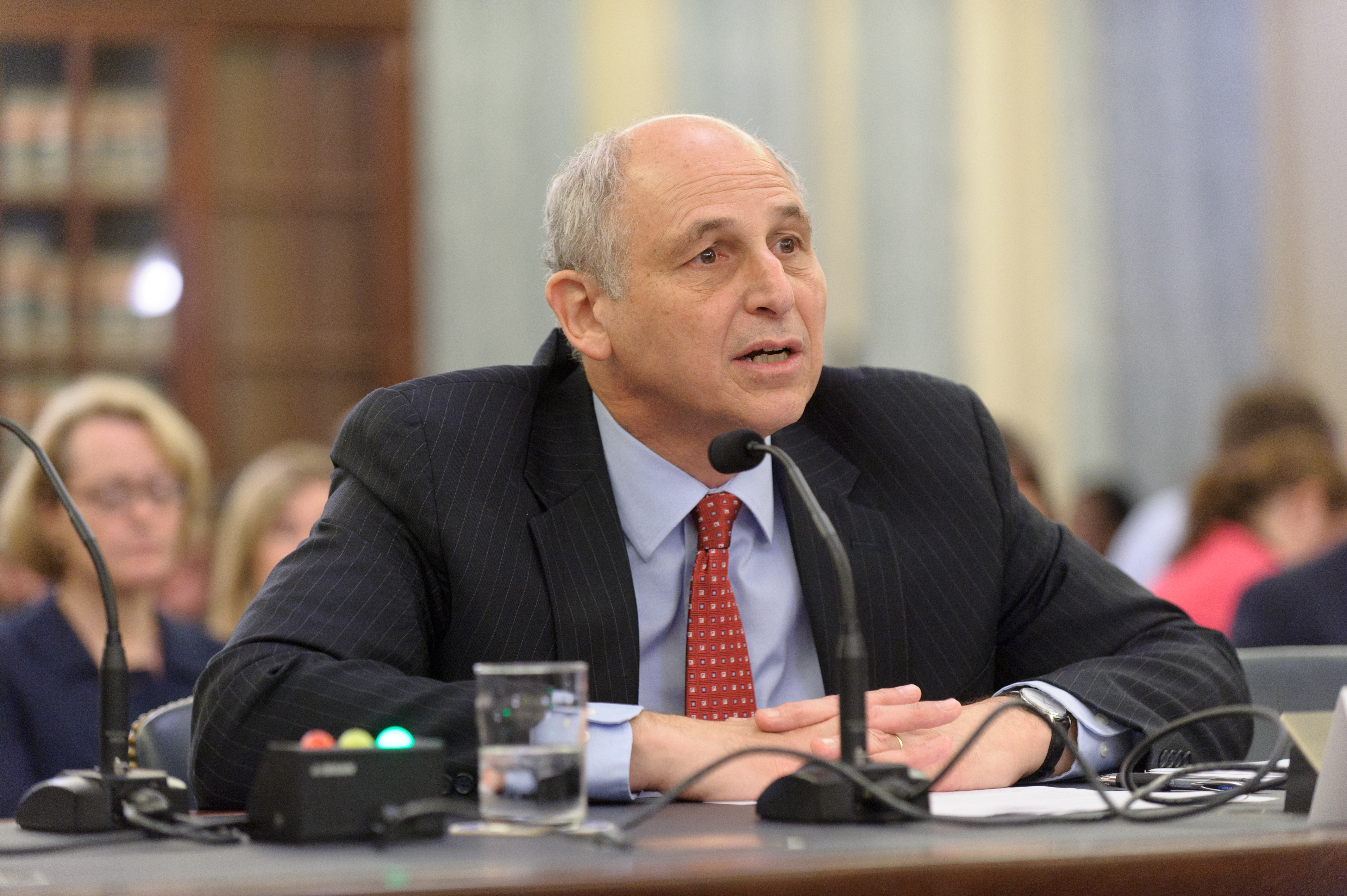 Mr. David Vladeck, Director, Bureau of Consumer Protection, Federal Trade Commission